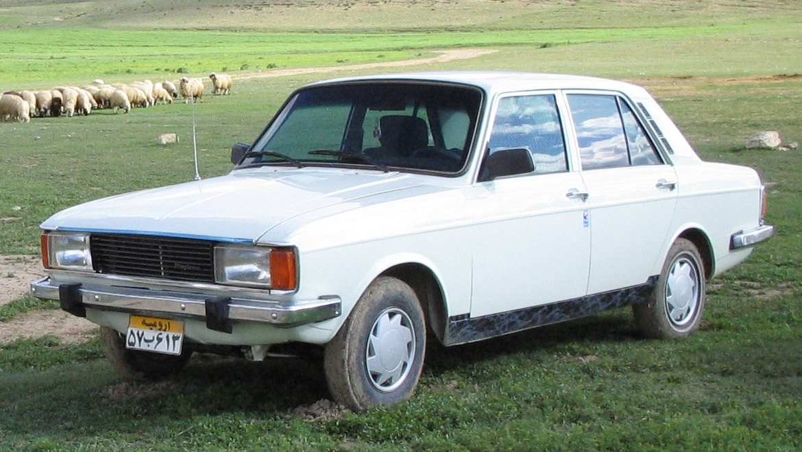 A Peykan (Iran's national car), designed after the british Hillman Hunter.